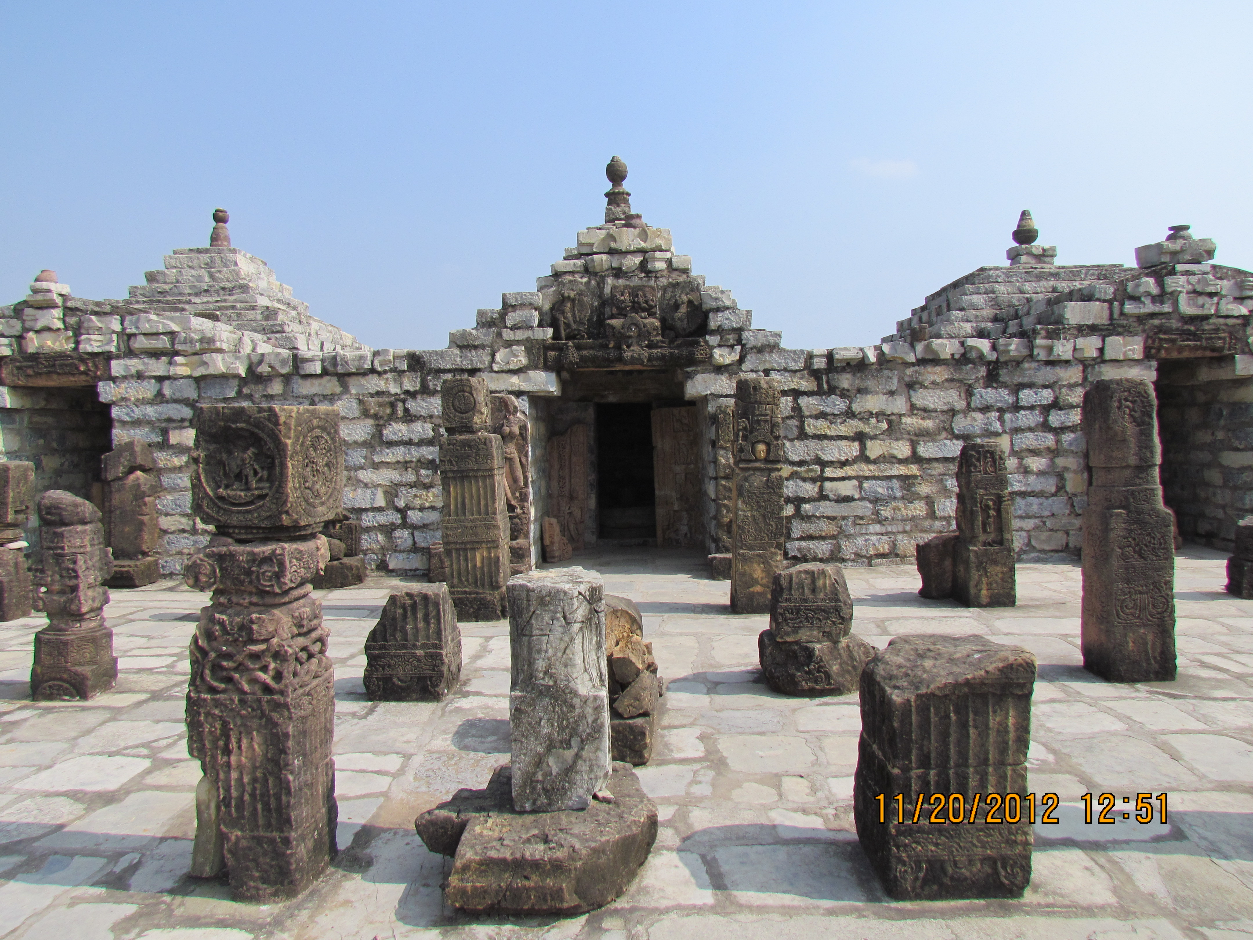 Surang Tila